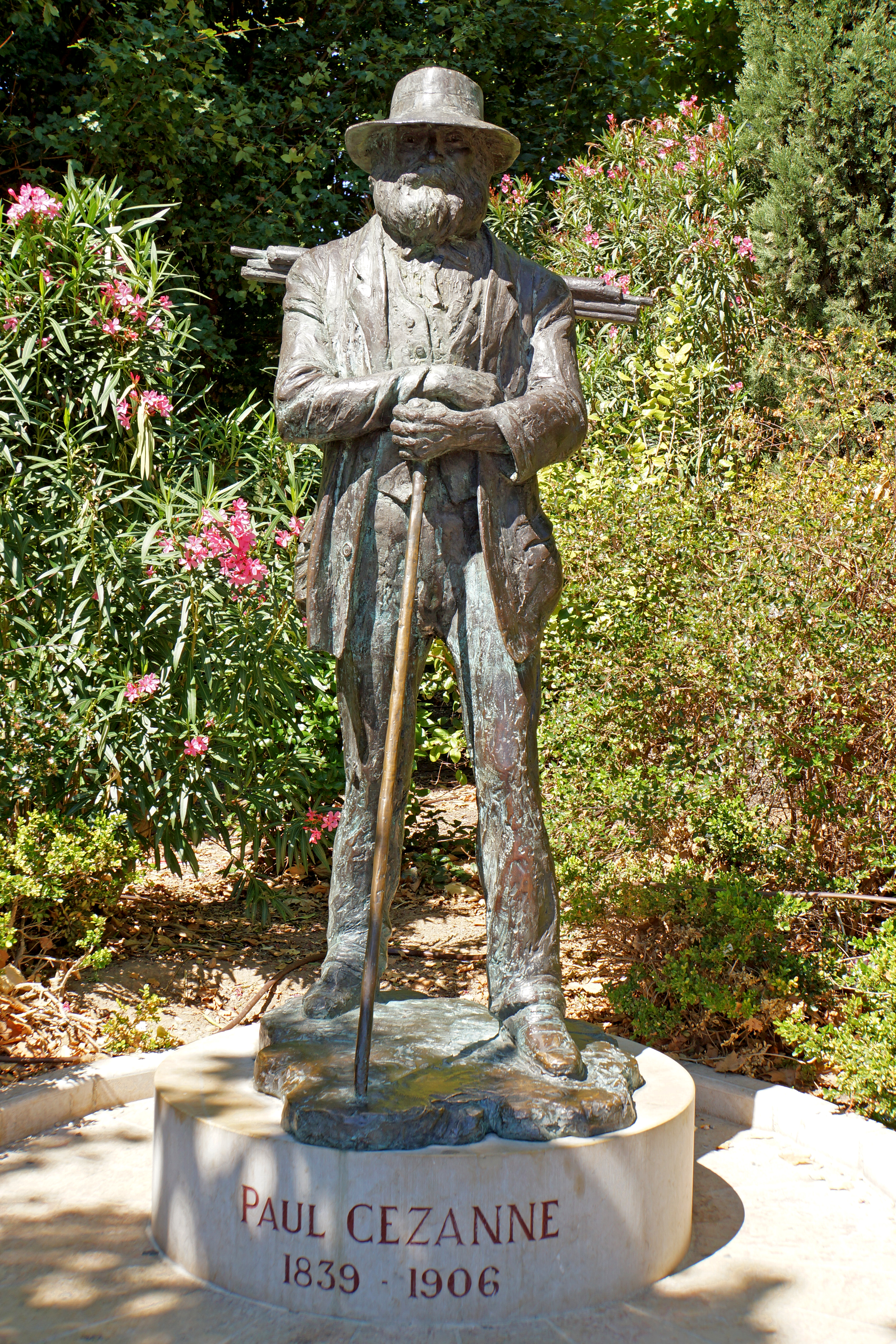 PLEASE, NO invitations or self promotions, THEY WILL BE DELETED. My photos are FREE to use, just give me credit and it would be nice if you let me know, thanks. Statue of Paul Cezanne, 1839-1906. He was a French artist and Post-Impressionist painter whose work laid the foundations of the transition from the 19th-century conception of artistic endeavour to a new and radically different world of art in the 20th century.